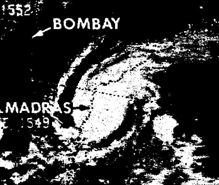 Image of the 1977 Andhra Pradesh cyclone.